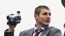 Cropped image of England rugby celebrations. Ben Cohen.